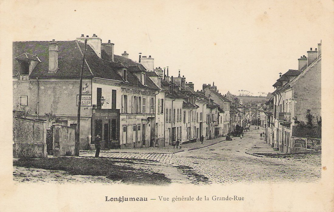 Picture of the Grande rue (now rue du président François Mitterrand) from the railway bridge on a postcard from 1900s, Longjumeau, Essonne, France.